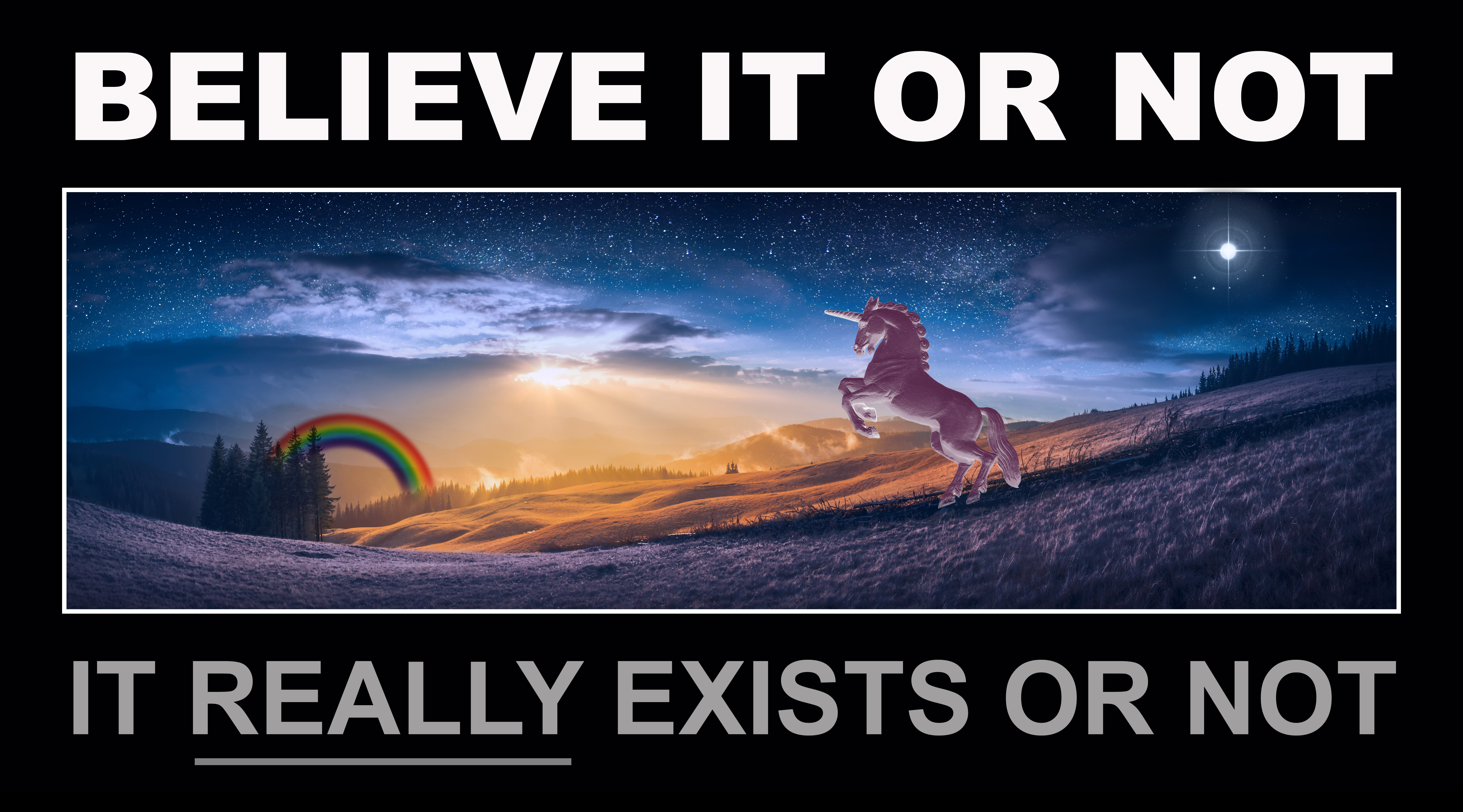 Invisible pink unicorn with the meeting of day and night in a mountain valley, a totally fake rainbow, and the so-called evening "star". Text "says "Believe it or not, it really exists or not" (Surreal humour). See also this page for inspiration.